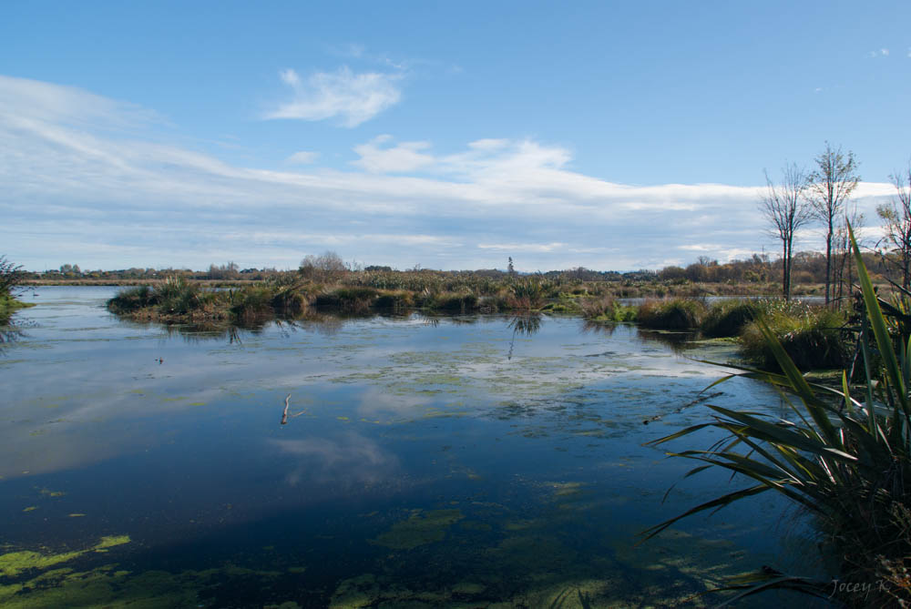 It was such a wonderful Sunday we thought we would take a walk around the Wetlands area.. but we couldn't go far because the walkway was all flooding from all the heavy rain we had just had. April 20, 2014 Christchurch New Zealand at the Travis Wetland Nature Heritage Park.